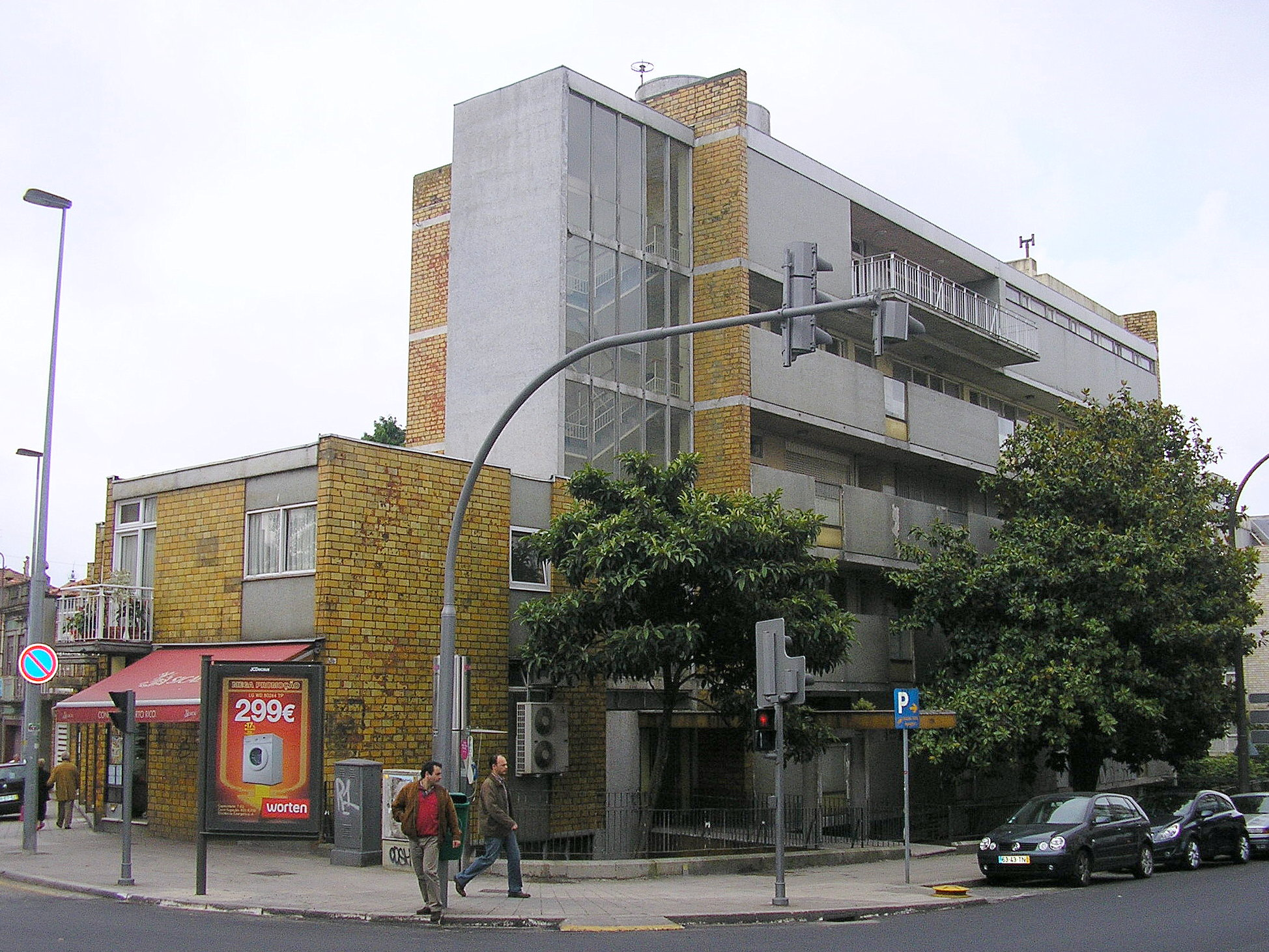 Parnaso building (1954-56) in Porto city, Portugal.